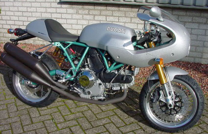 My Ducati Paul Smart LE. Photo of a Ducati Paul Smart Limited Edition replica.